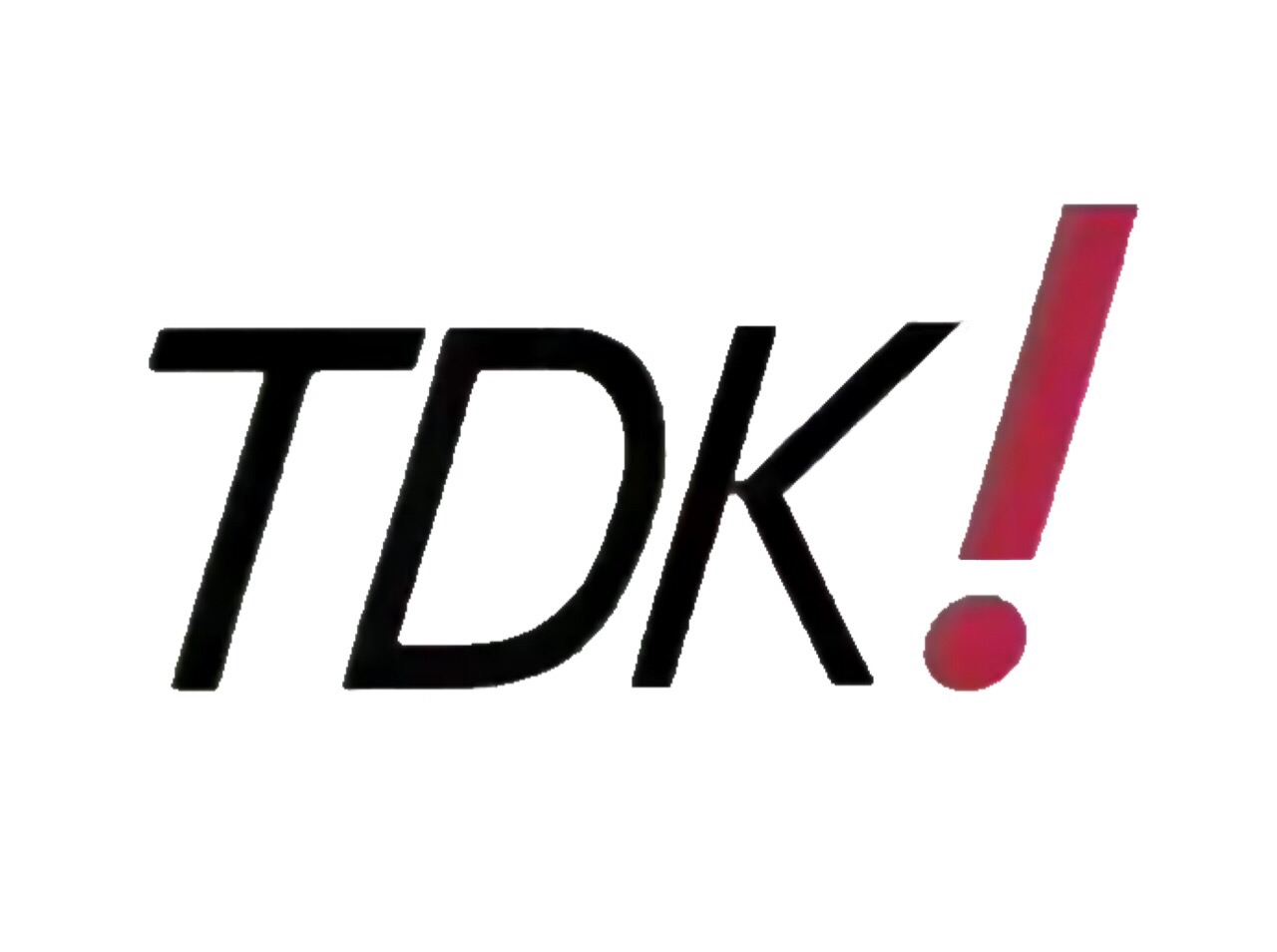 Brand logo of TDK!